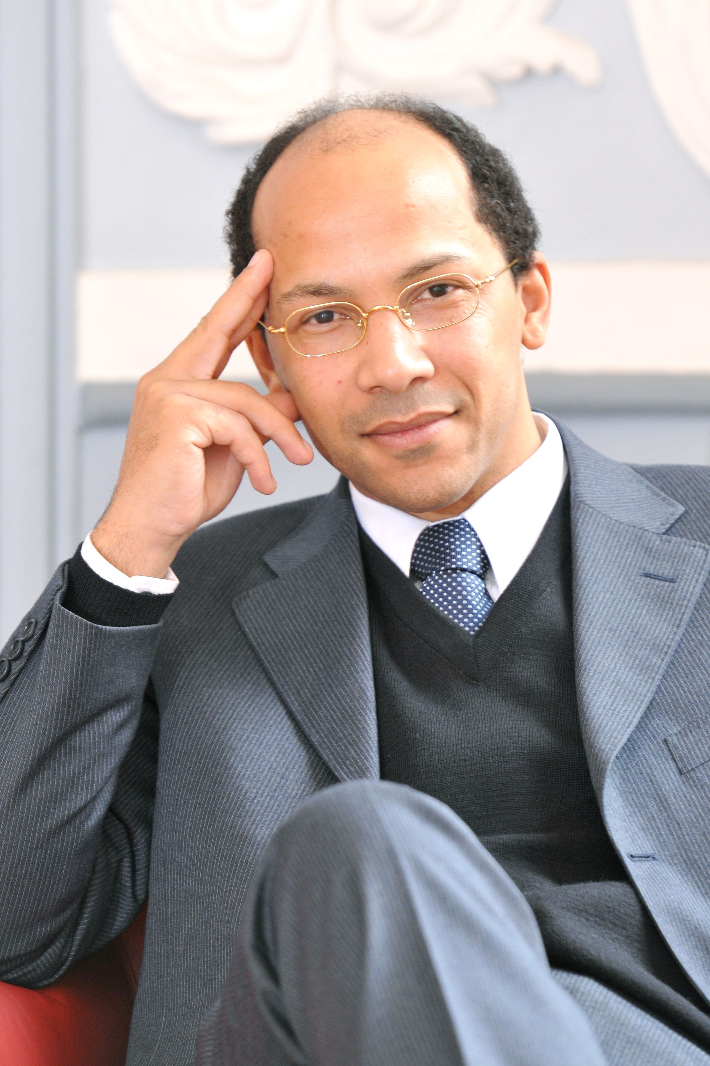 Nicolas Pompigne Mognard - Founder and CEO of APO Group (March 2010)